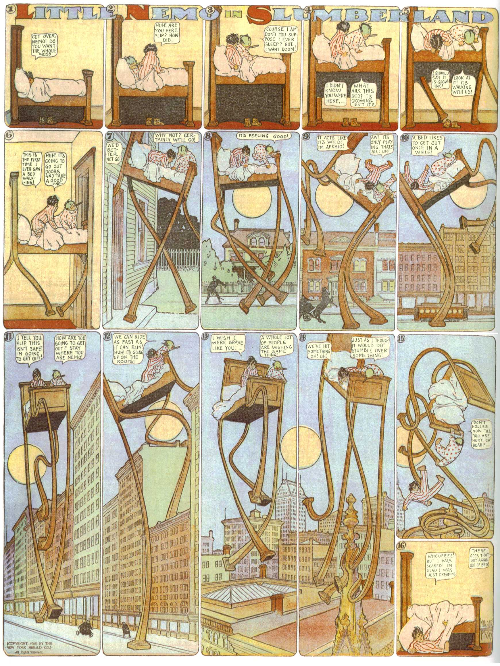 Little Nemo comic strip by Winsor McCay.